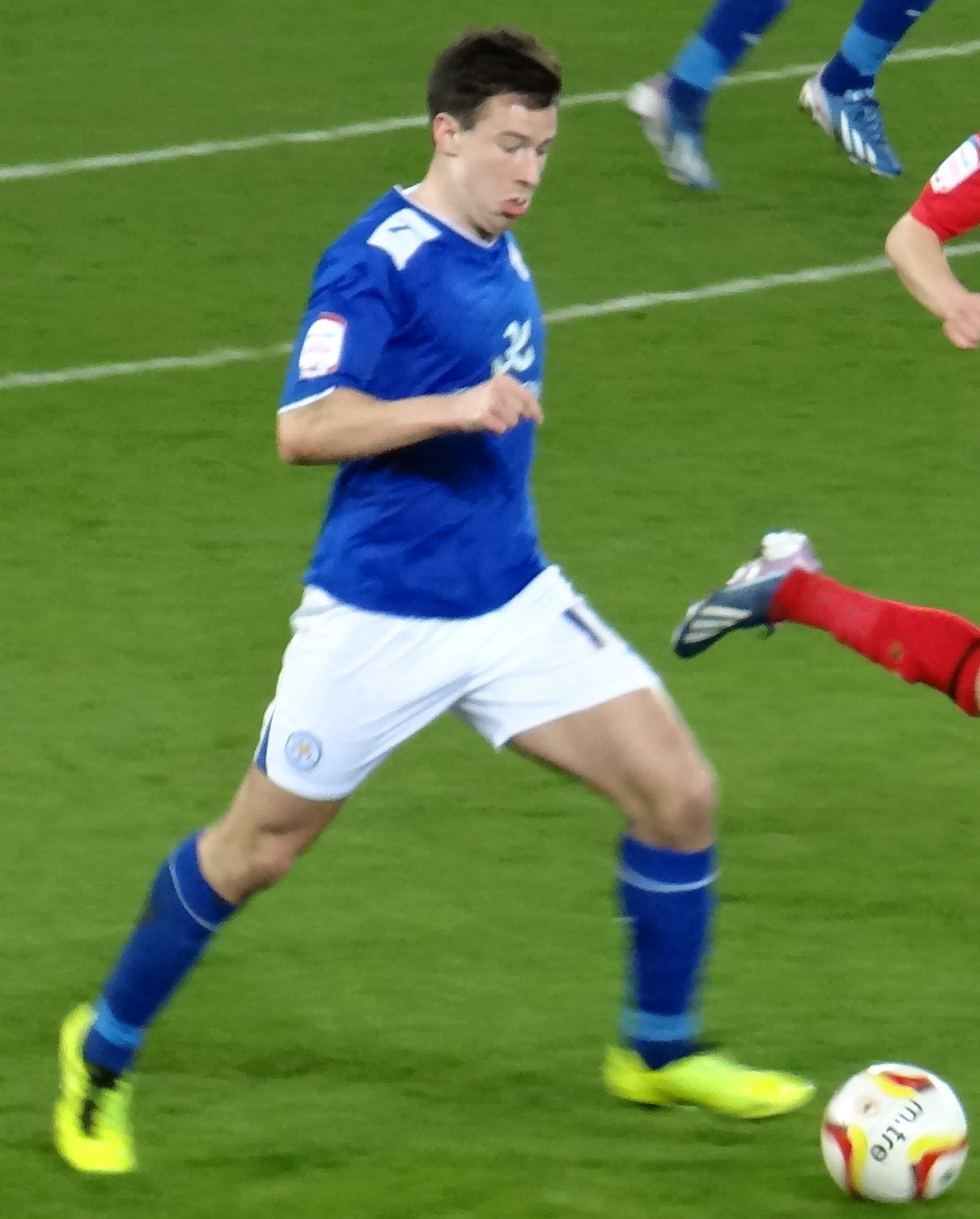 12/03/13 Cardiff v Leicester, Championship, Cardiff City Stadium, Cardiff, Wales